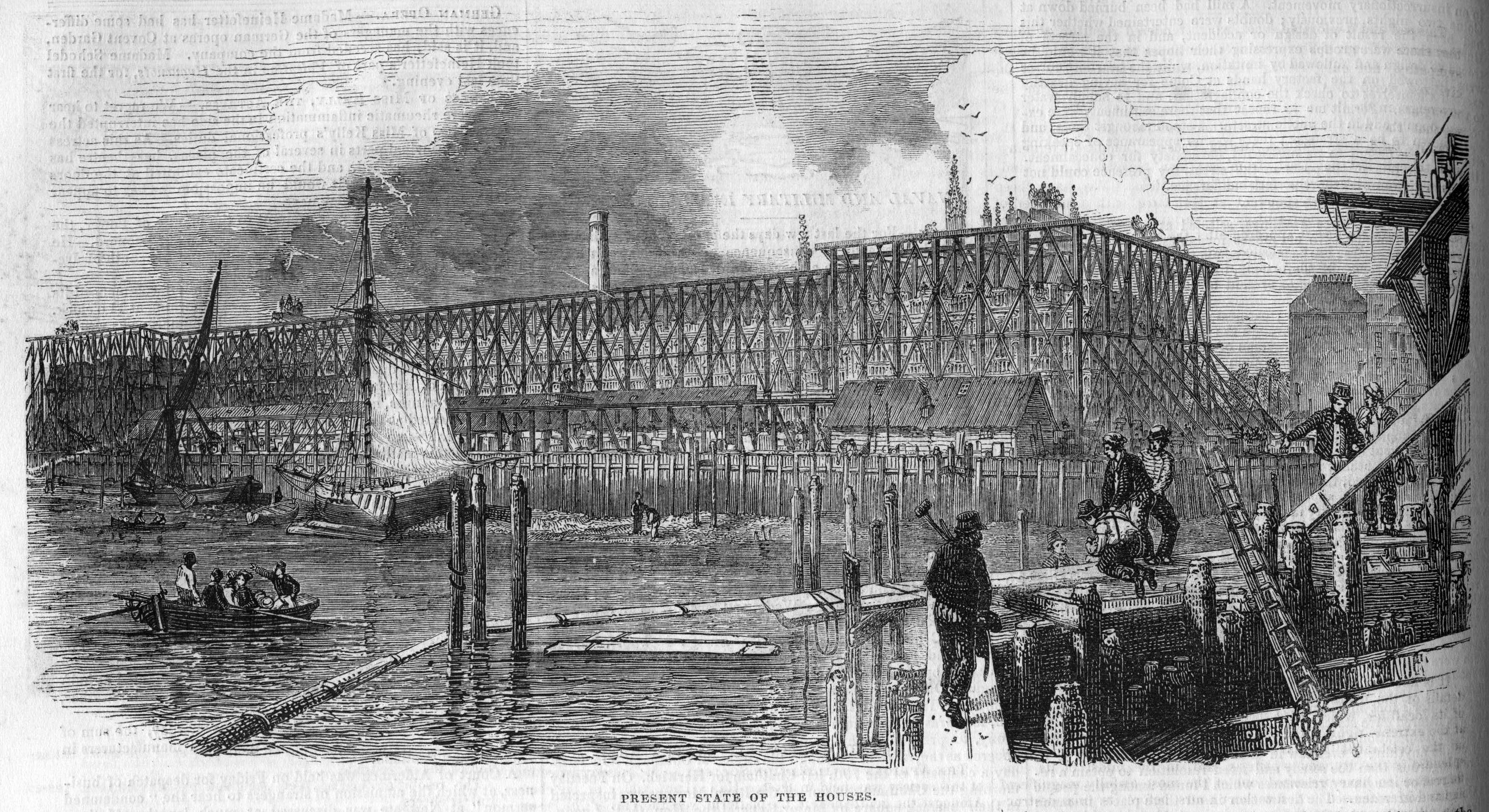 A drawing of the Palace of Westminster (1842).